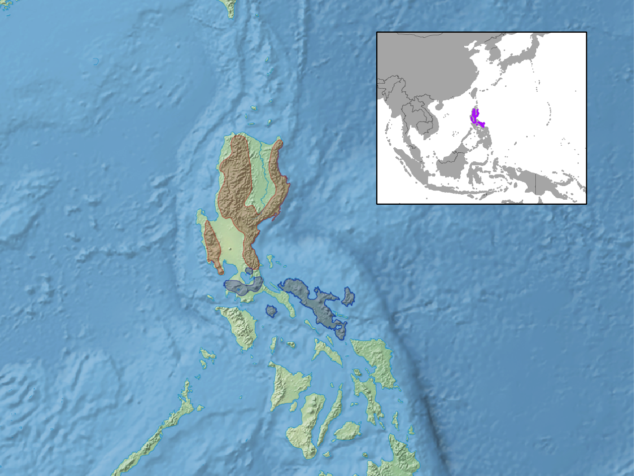 geographic distribution of Phloeomys Red: Phloeomys pallidus Blue: Phloeomys cumingi